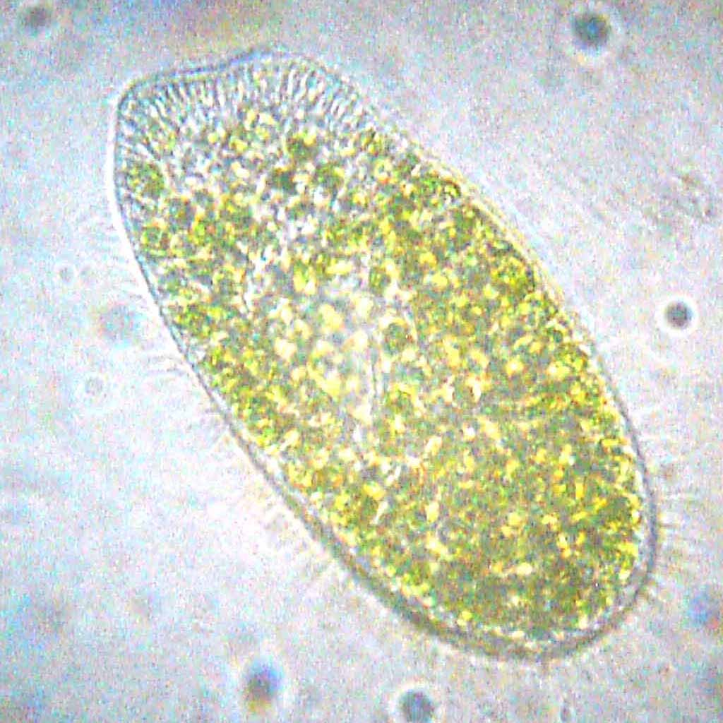 A Paramecium Bursaria. This example is approximately 100 micrometers in length.